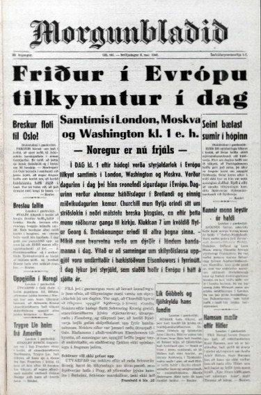 "Print Screen" of the fron Page of Morgunbladid Iceland on the 8th of May 1945.